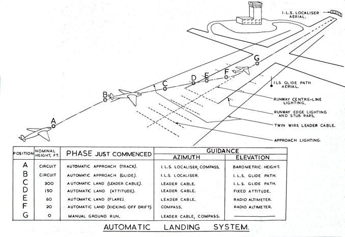 This is a technical drawing illustrating the components and guidance signals of an aircraft automatic landing system and their use in successive phases of an automatic landing.